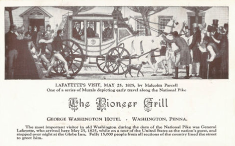 Postcard depicting the 1825 visit of Gilbert du Motier, Marquis de Lafayette to Washington, Pennsylvania, where he dined at The Pioneer Grill located in The George Washington Hotel and stayed at the Globe Inn.